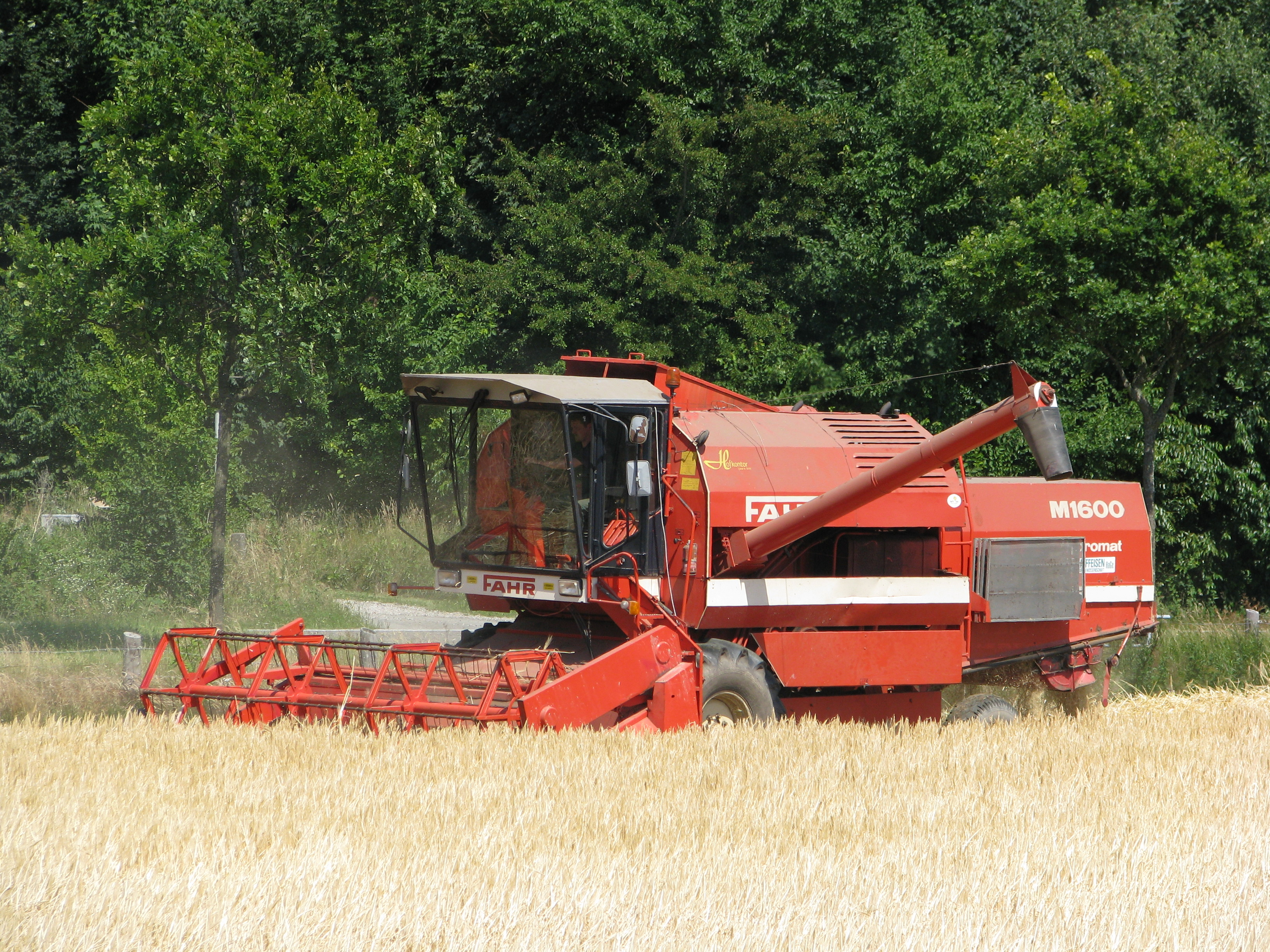 Combine-Harvester by Fahr (Model: M1600-Hydromat) harvesting barley in the municipality of Hattstedt, Schleswig-Holstein, Germany